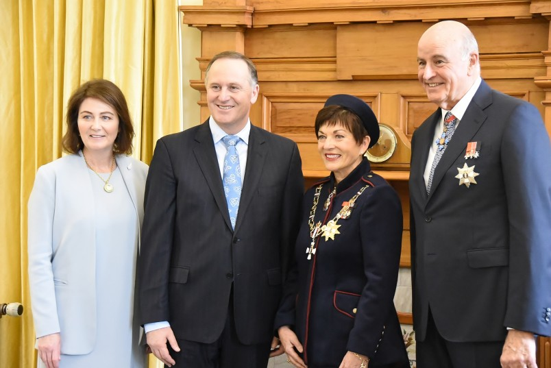 Taking the Official Photograph